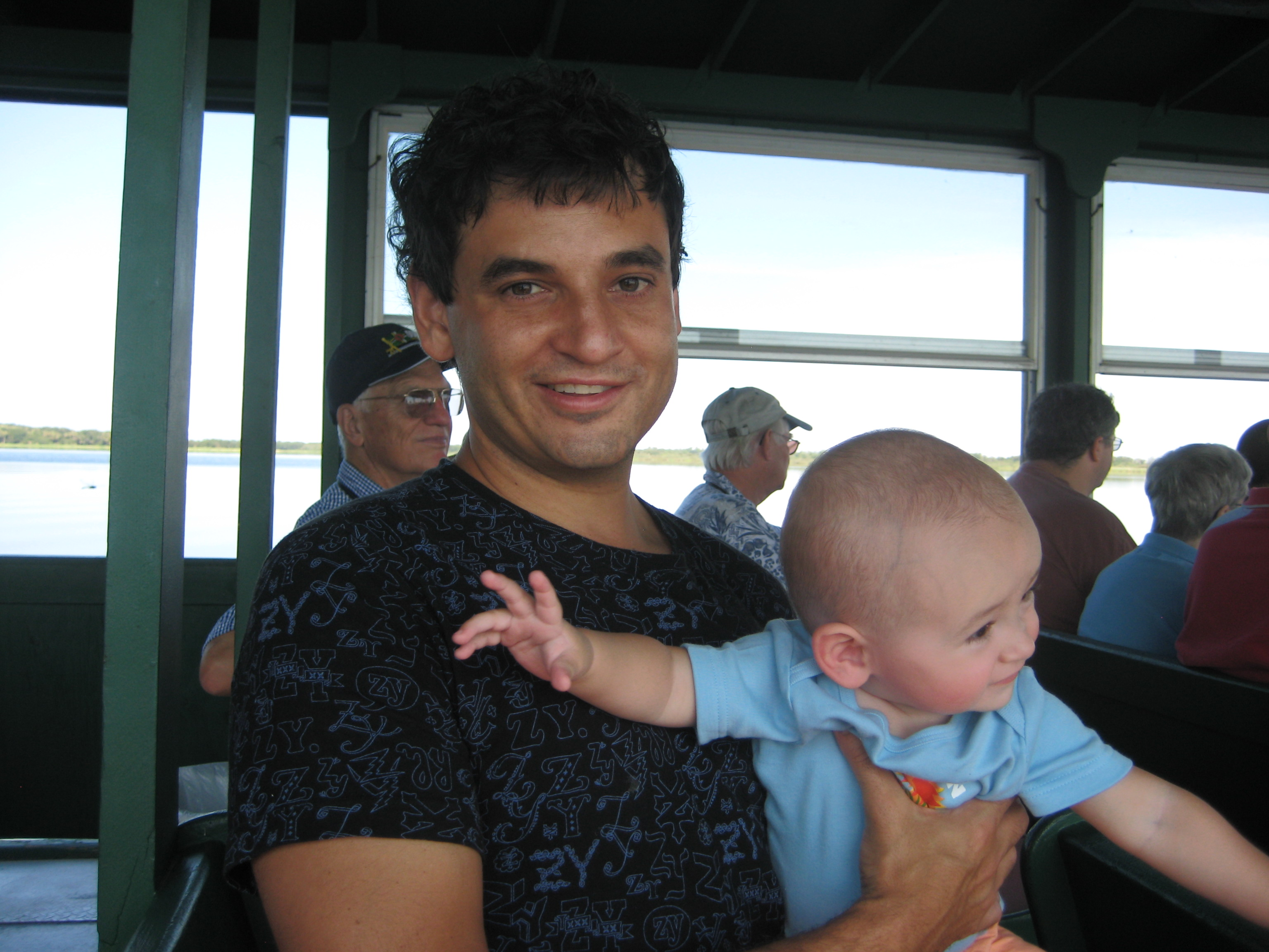 This is a recent image of Tony D'Souza with his daughter, Gwen.